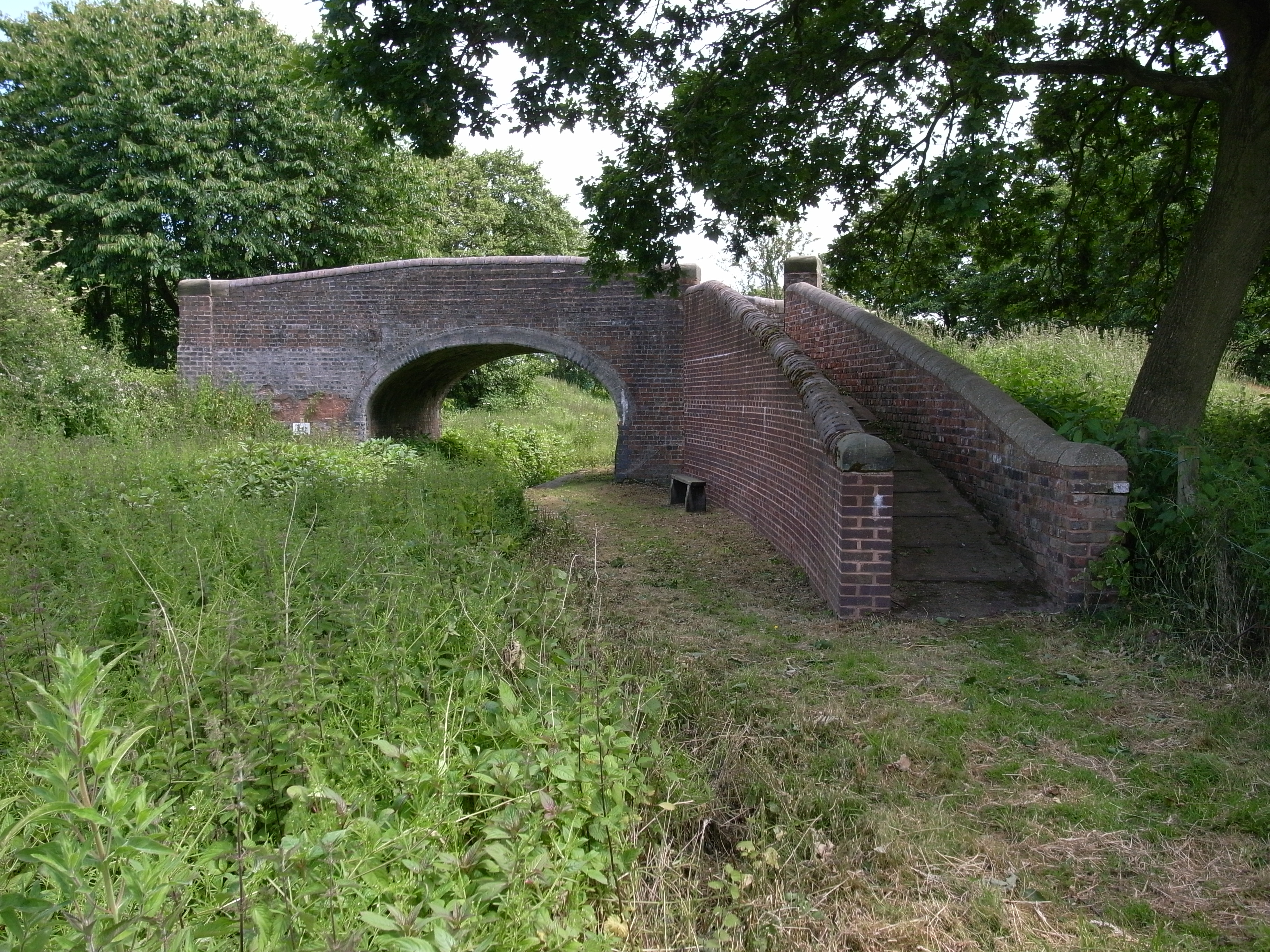 The restored accommodation bridge near the Roman Way Hotel (Bridge 7 or 8, depending on source) at the limit of open water and footpath at the eastern end of the current British Waterways part of the unusable Hatherton Canal, Staffordshire, England.